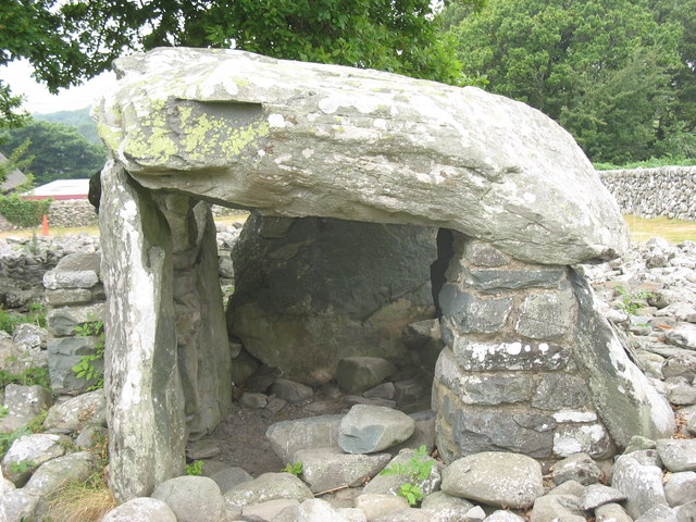 The Higher or Eastern Dyffryn Cromlech. The second, of two, chambers on this important archaeological site. It stands 10m east of the first chamber and represents a separate phase in the development of this Neolithic tomb. The capstone stands on five uprights and is 3.5m long and 3m broad. A modern pillar has been built to help support the capstone.